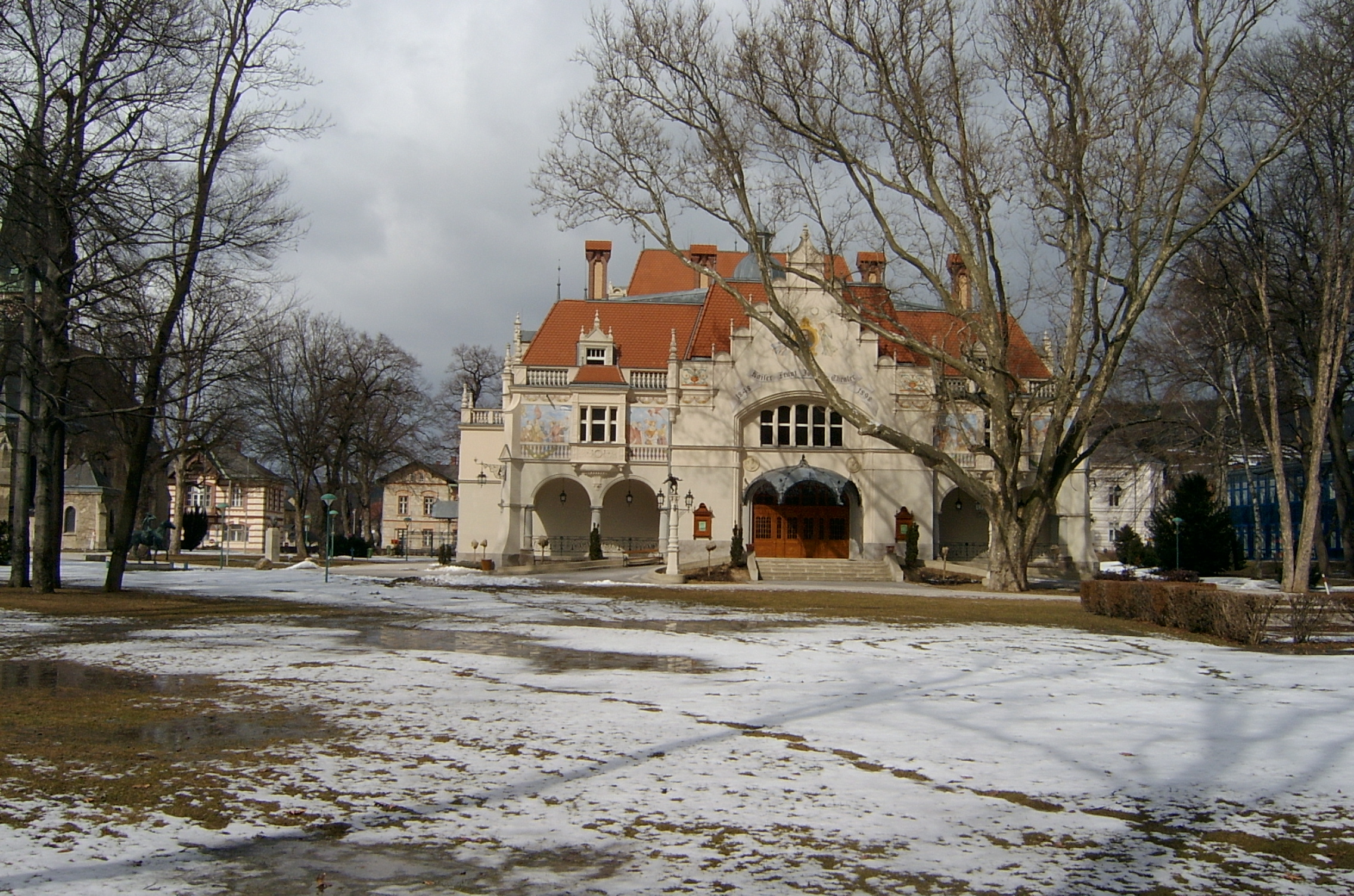 Theatre of Berndorf in Lower Austria photo by myself at march 2006